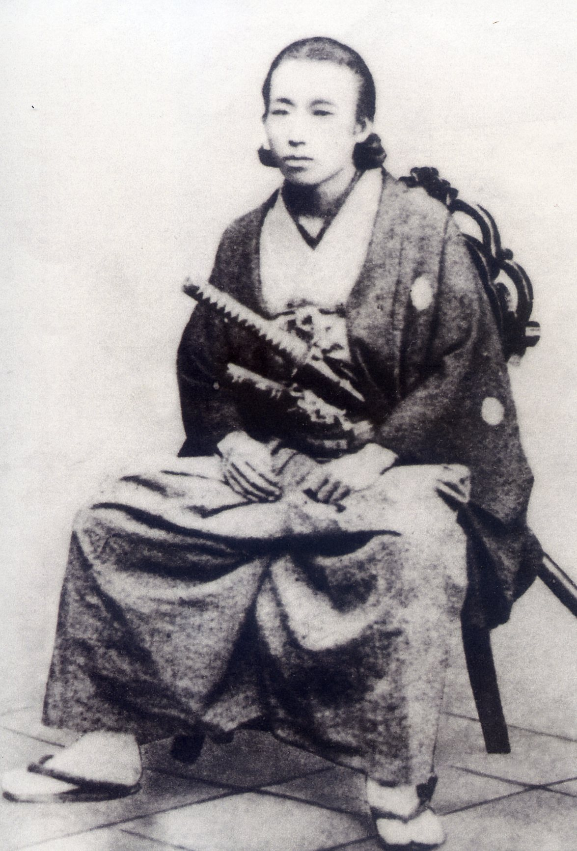 Sagara Chian in Nagasaki between 1865 and 1867. As a member of the Samurai-class he is wearing two swords.